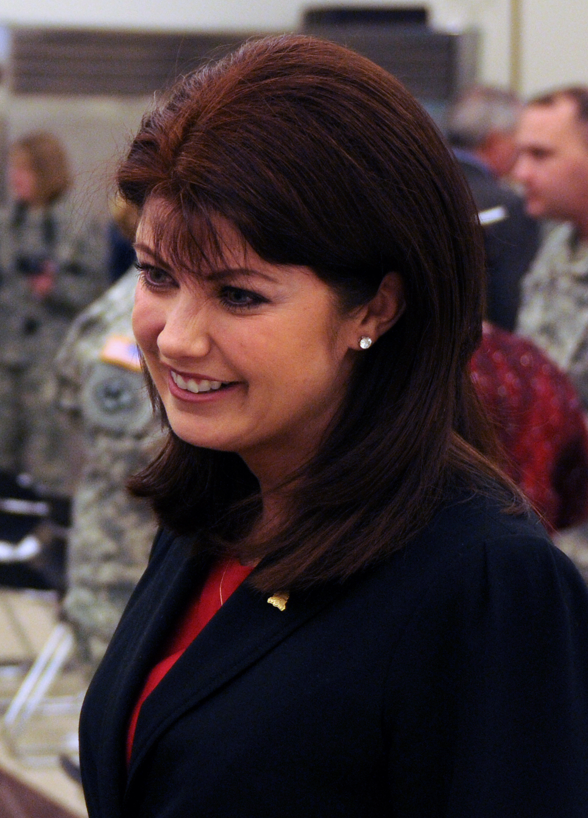 Wisconsin Lt. Gov. Rebecca Kleefisch, right, speaks with deploying Army Reserve Soldiers assigned to the 376th Financial Management Support Unit during their farewell ceremony in Wausau, Wis., Dec. 19, 2013.